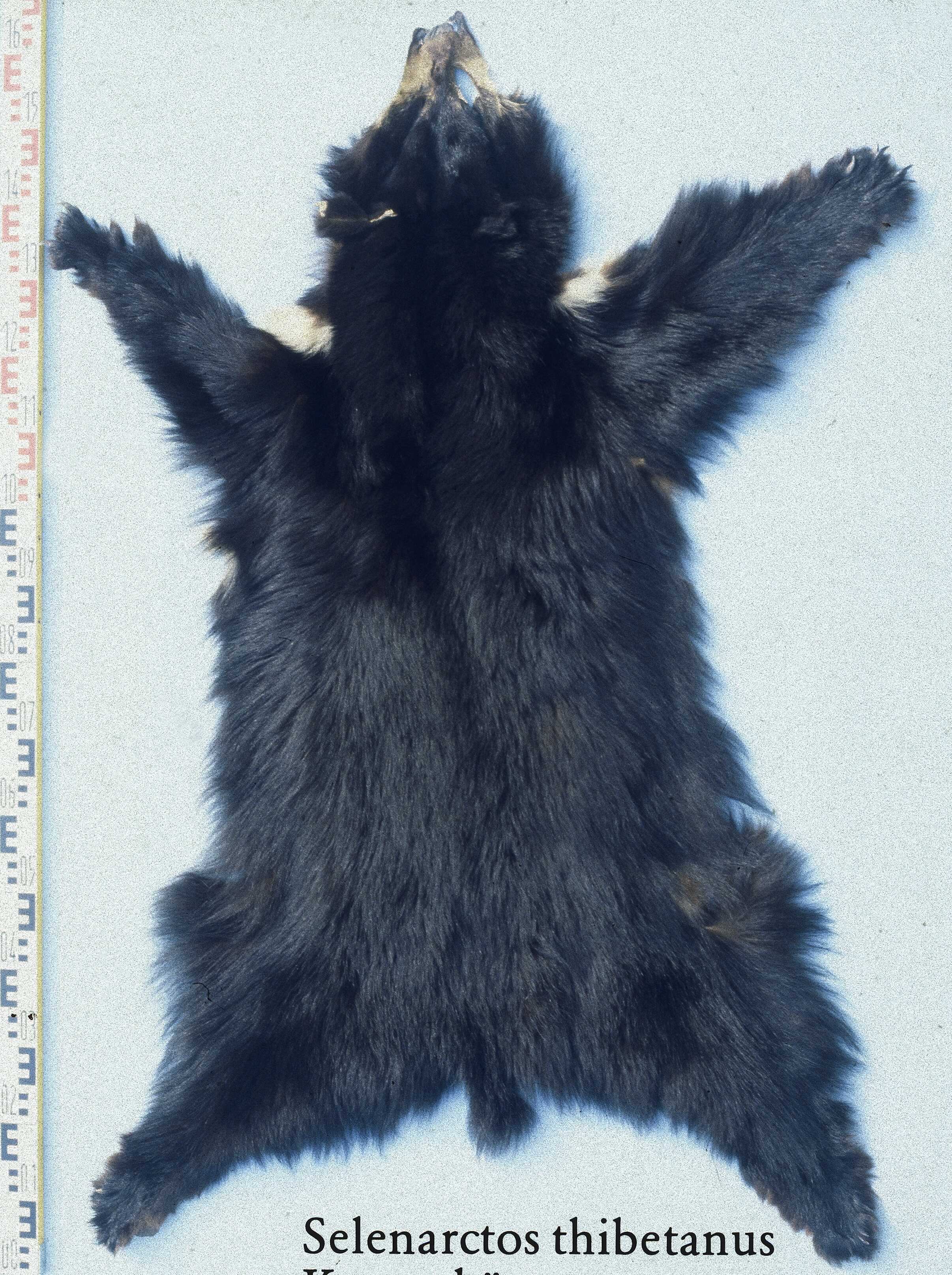 Asiatic black bear (selenarctos thibetanus). Fur skin collection, Bundes-Pelzfachschule, Frankfurt/Main, Germany